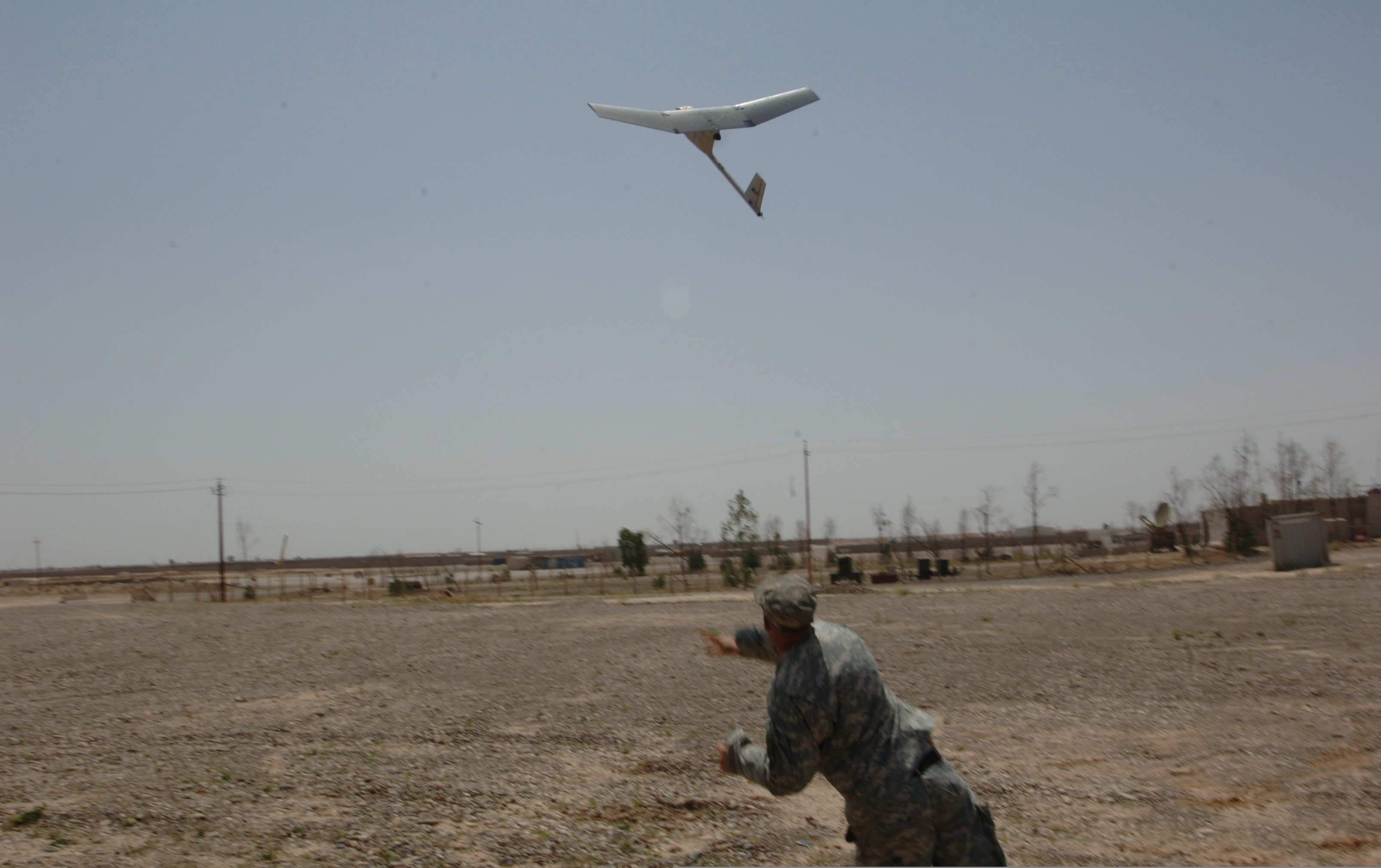 U.S. Army Master Sgt. Bobby Bullard, from 3rd Battalion, 320th Field Artillery Regiment, 101st Airborne Division, launches a Raven unmanned spy plane at Forward Operating Base Remagen, Iraq.